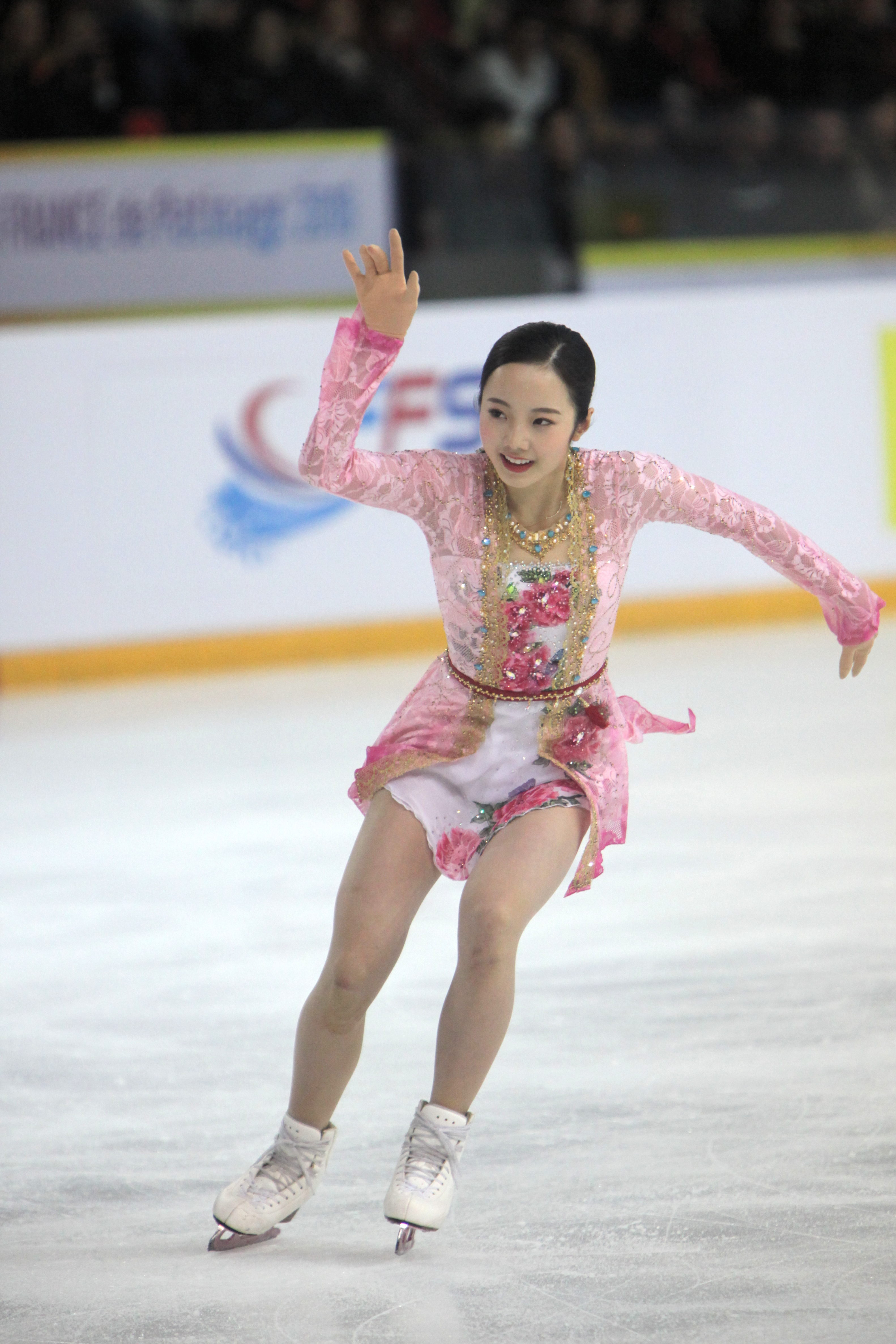 Marin Honda during the Ladies Free Skating at the Internationaux de France de Patinage 2018.